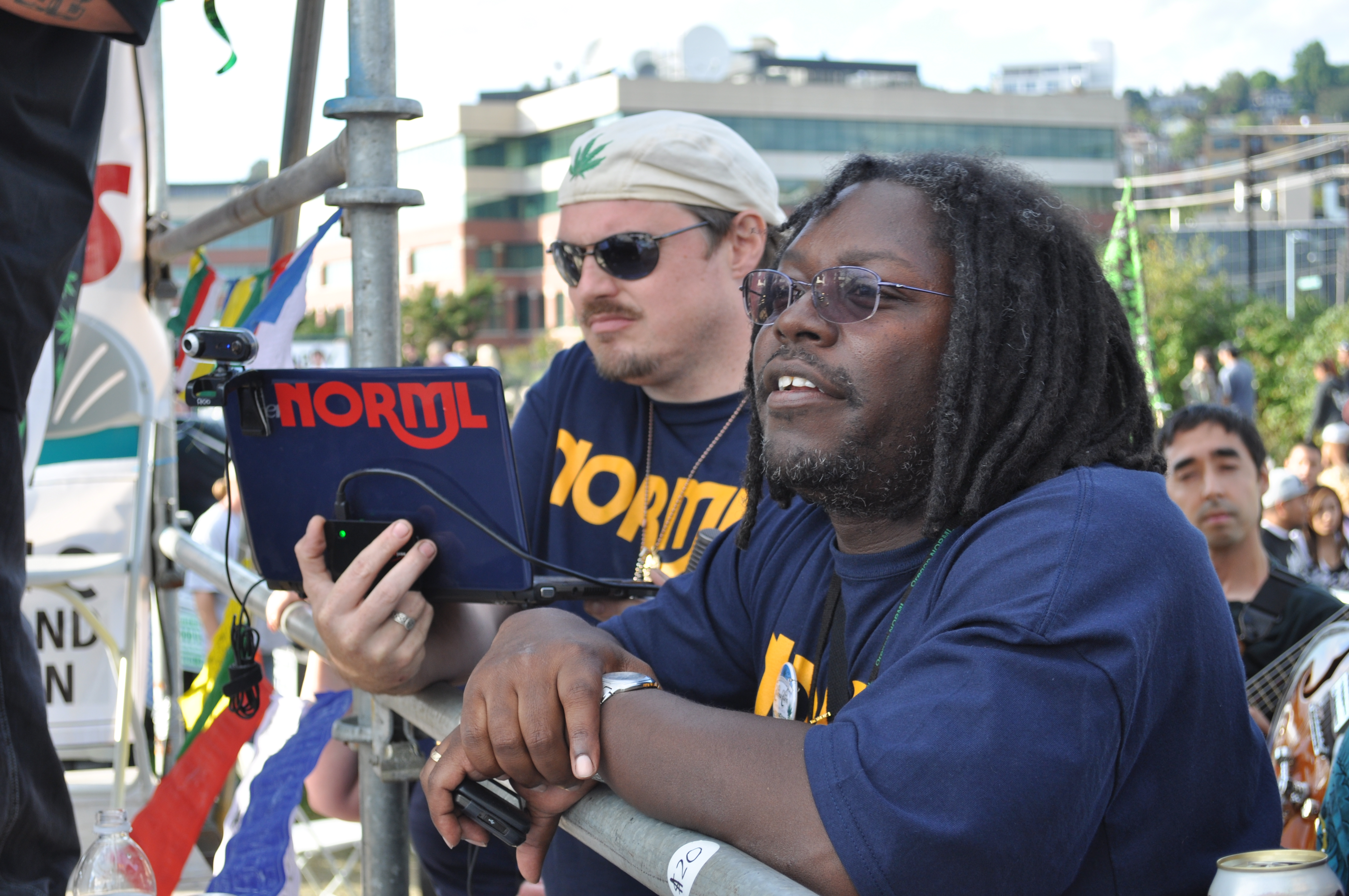 "Radical Russ" Belville recording video directly to a laptop computer. "Cousin" Kenny Davis at right. Seattle Hempfest 2010, Myrtle Edwards Park, Seattle, Washington.